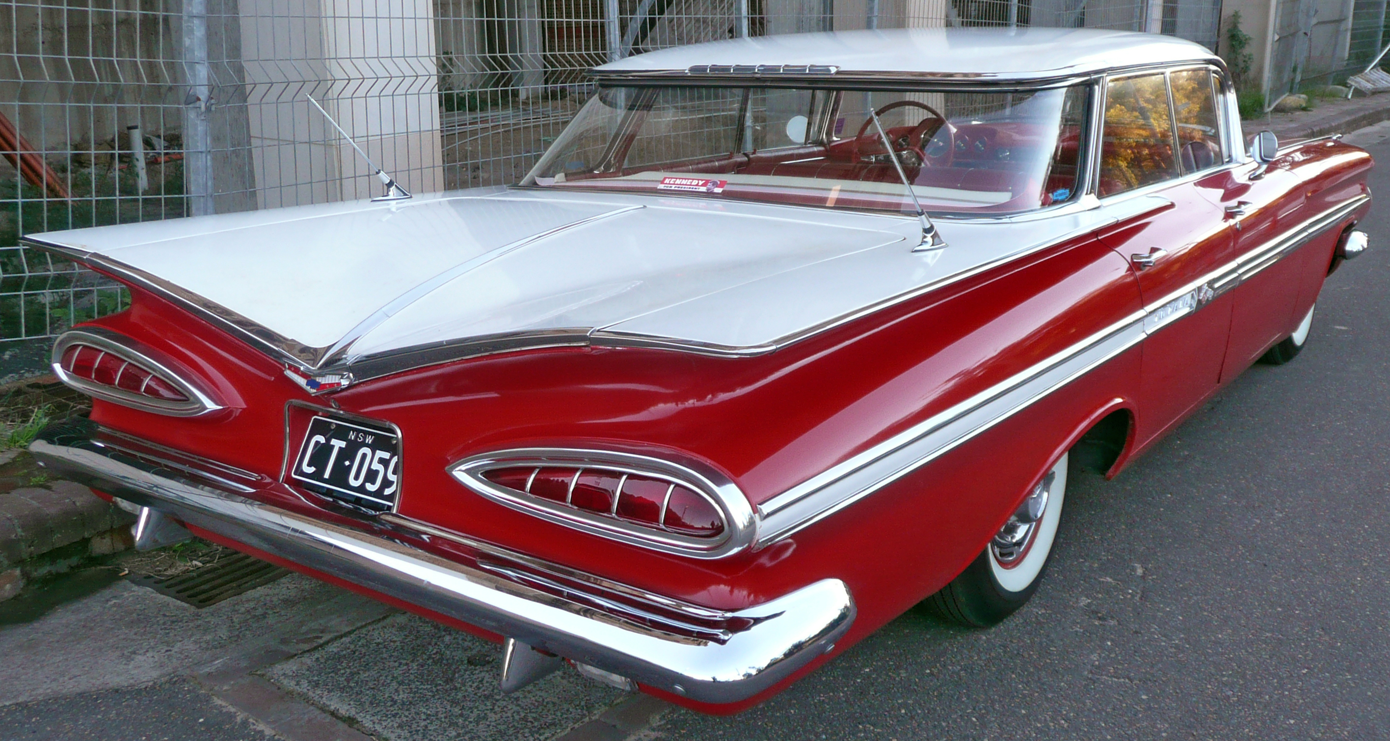 1959 Chevrolet Impala sedan. Photographed in Loftus, New South Wales, Australia.